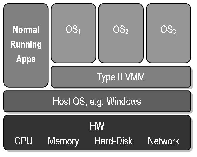 Virtual Machine Monitor Type II